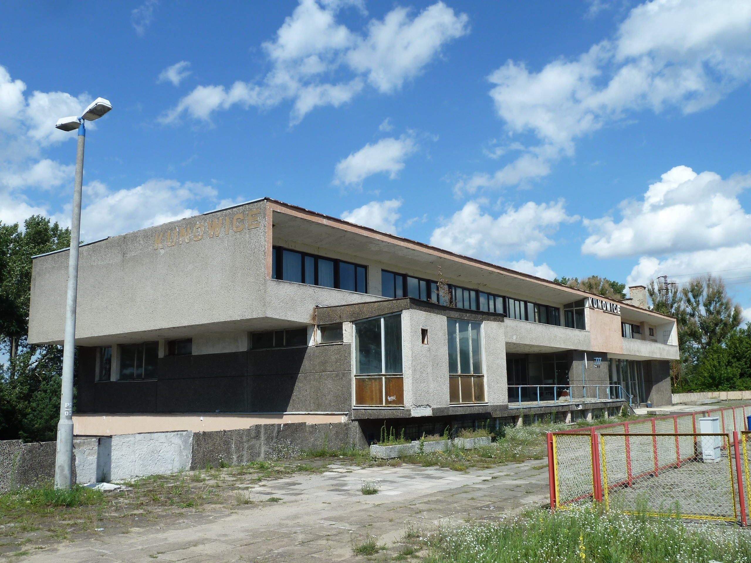 Kunowice train station, station building from 1965, today out of use